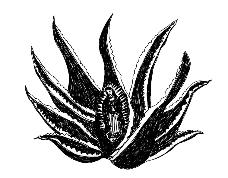 Virgin of Guadalupe in a maguey (agave). I drew this and I am licensing it under GNU.